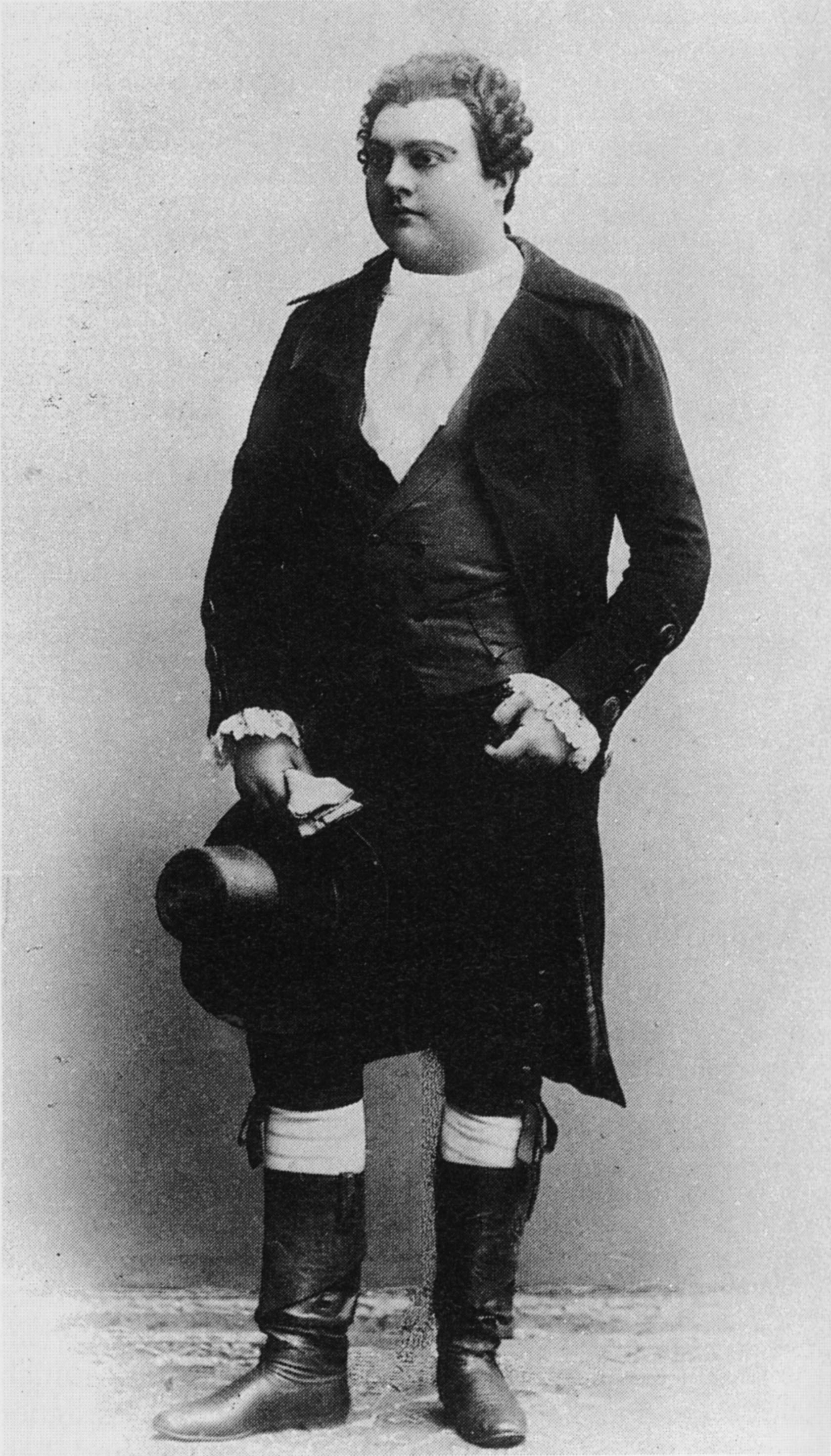 Ernest van Dyck in the title role of the opera Werther by Jules Massenet, which Van Dyck created on 16 February 1892 at the Vienna Hofoper.